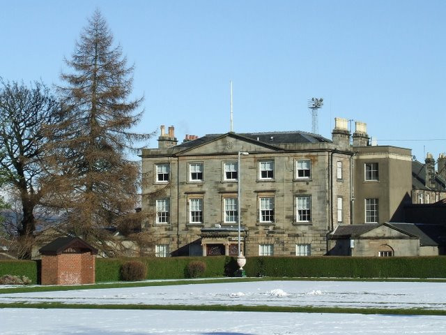 Tontine Hotel Viewed from Ardgowan Square park.